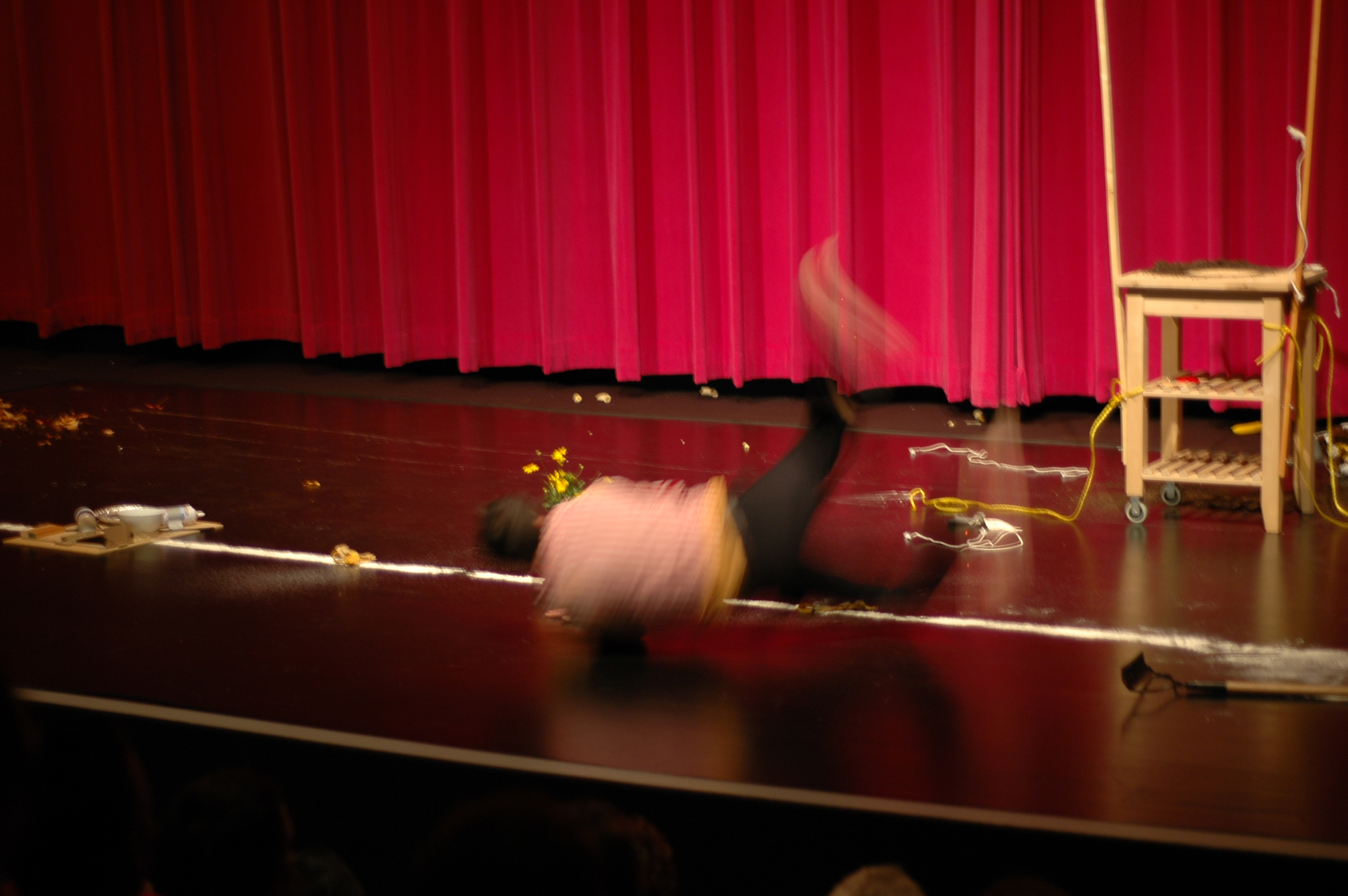 Slipping on a Bananas Peel - Joe Sola and Michael Webster - Bananas at the Hammer